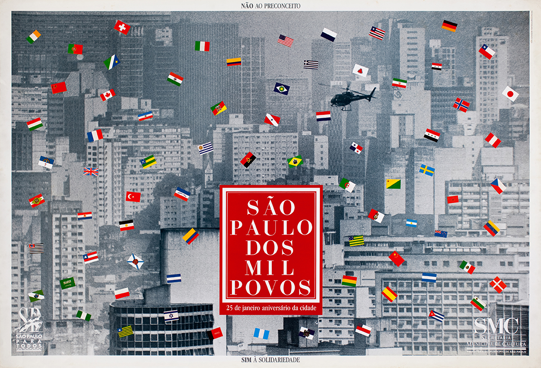 Obra criada pela Secretaria Municipal de Cultura da cidade de São Paulo para celebrar o aniversário da cidade.